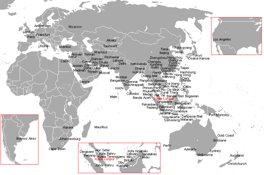 an updated version of cities with direct air connectivity with KLIA. added Moscow (Transaero), Semarang and Surat Thani (AK)